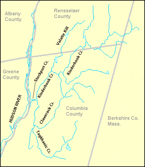 This is a map of the Stockport Creek, Kinderhook Creek, Claverack Creek, and tributaries.